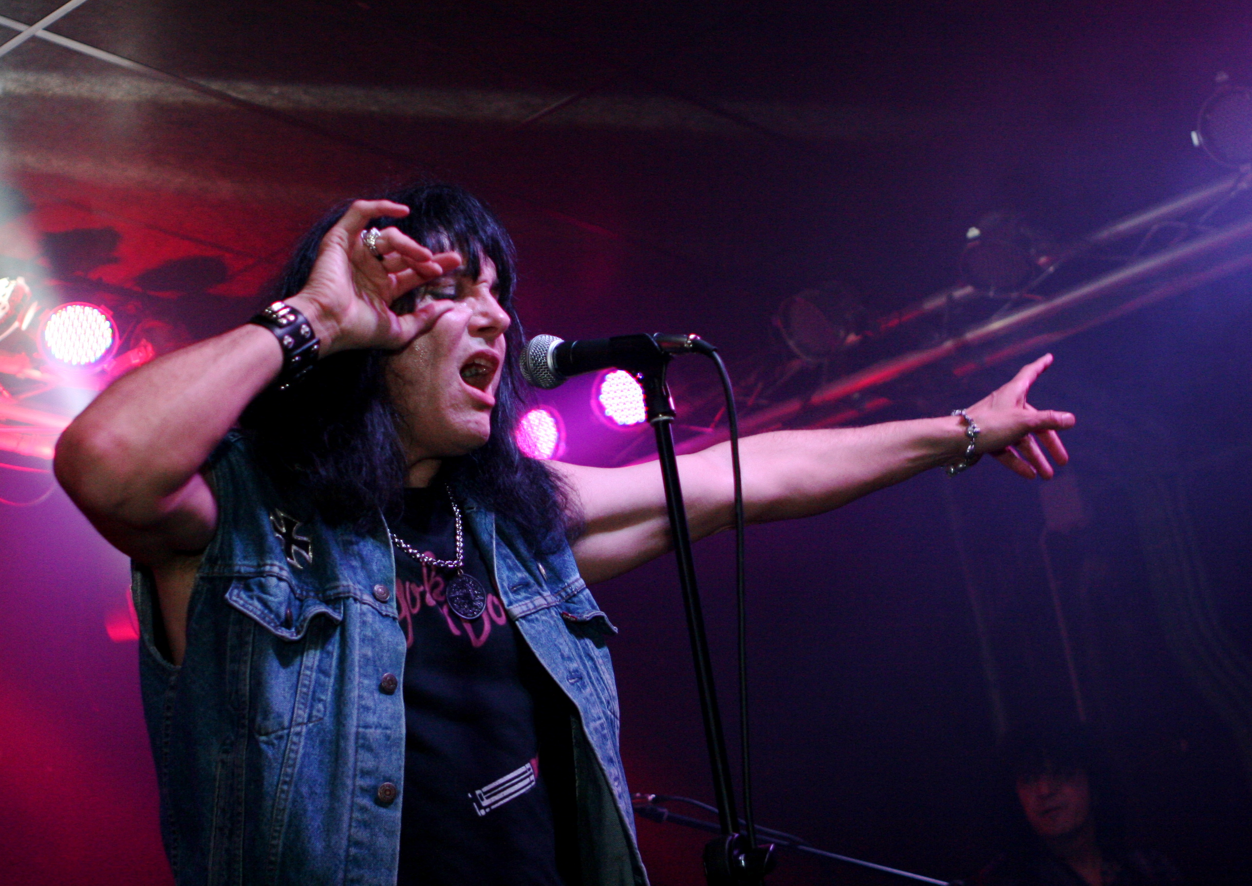 The Fuzztones in concert in Barcelona, JUne 2008.